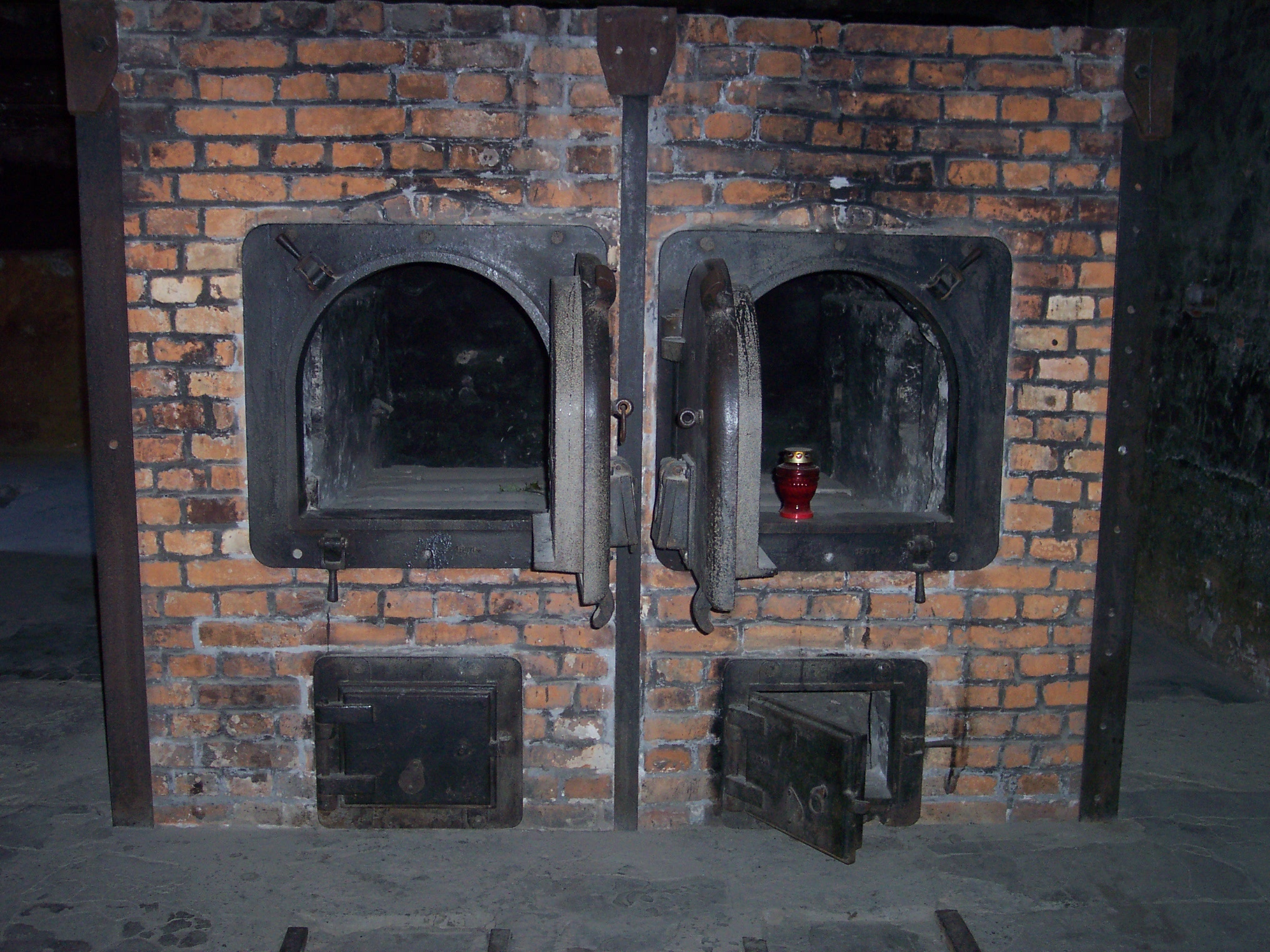 Cremator inside the crematorium of the concentration camp Auschwitz I